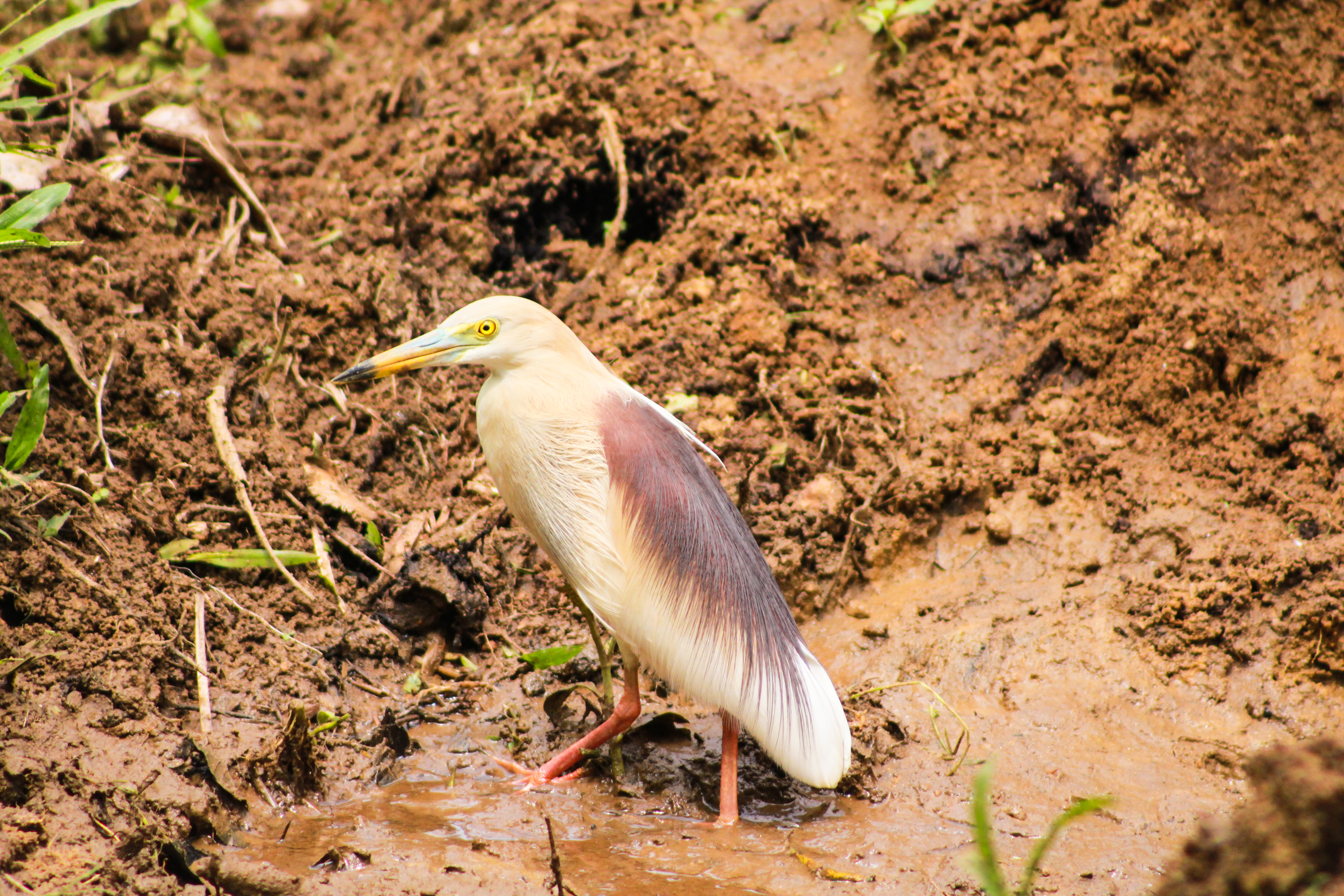 The Indian Pond Heron or Paddybird (Ardeola grayii) searching food in the mud and being alert